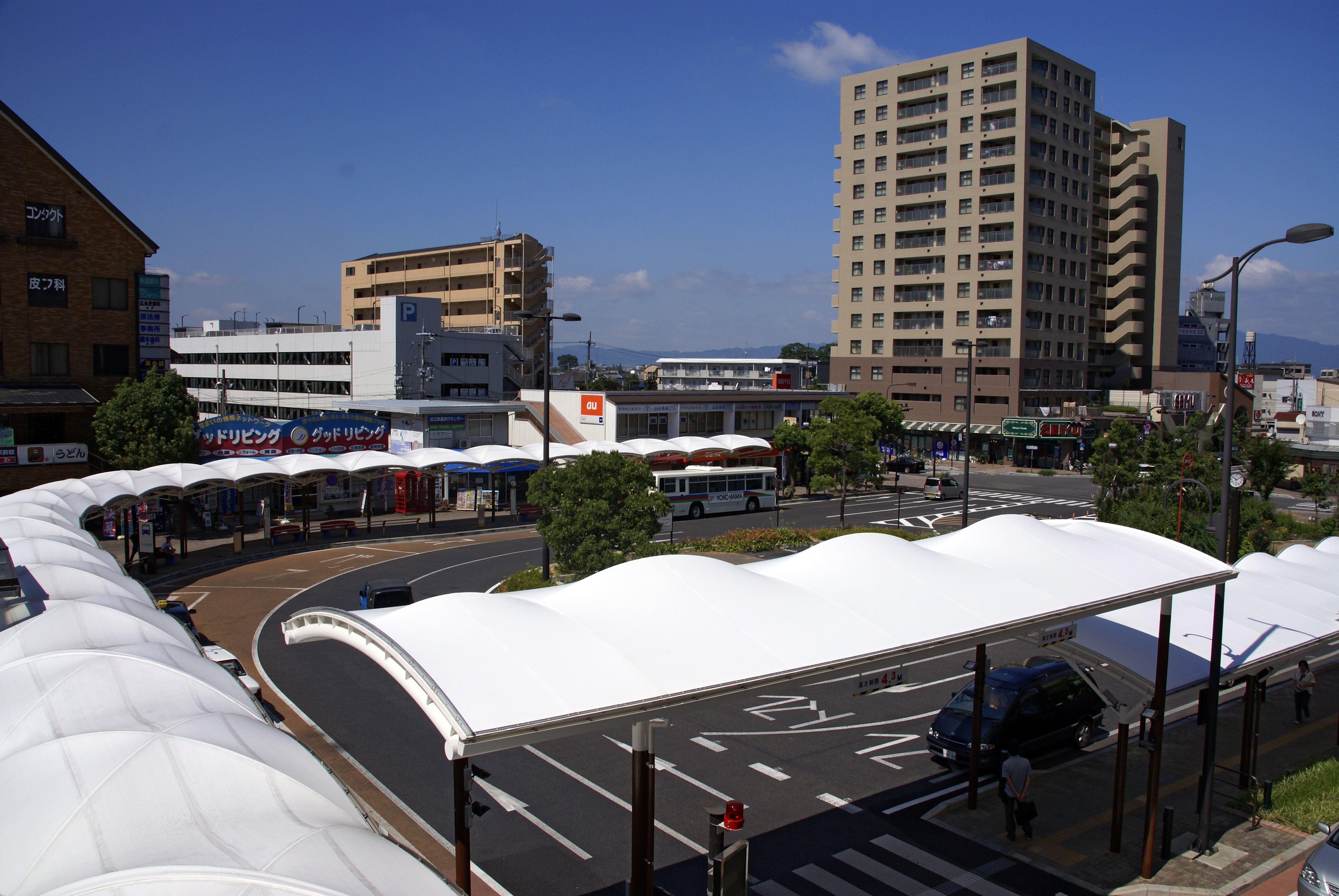 Moriyama Station in Moriyama, Shiga prefecture, Japan